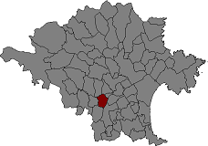 Location of Borrassà in Alt Empordà